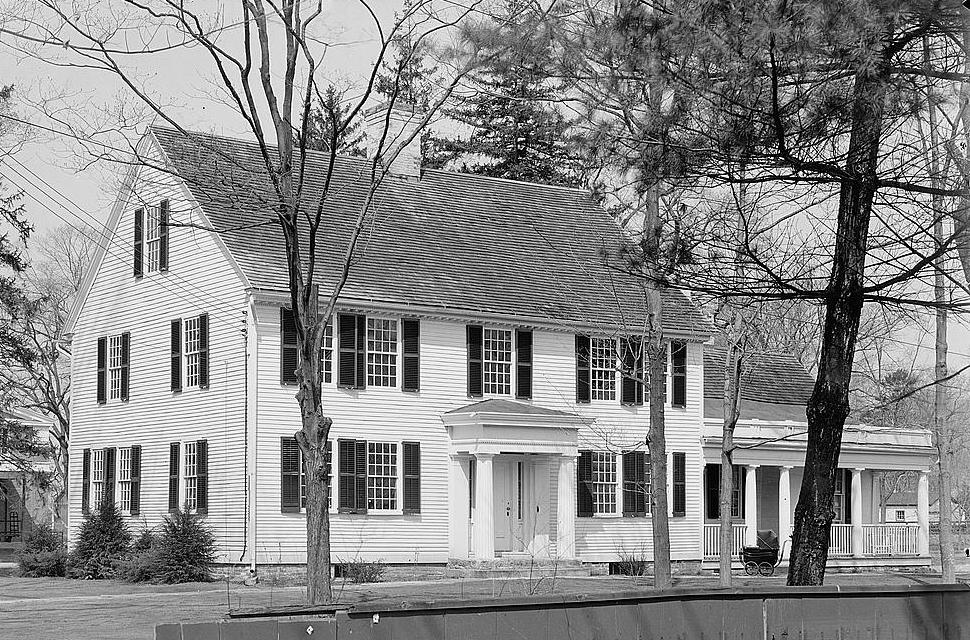 Gideon Welles House — Main & Hebron Streets, Glastonbury, Hartford County, CT. View from southeast. 1937 photo from the HABS—Historic American Buildings Survey of Connecticut.